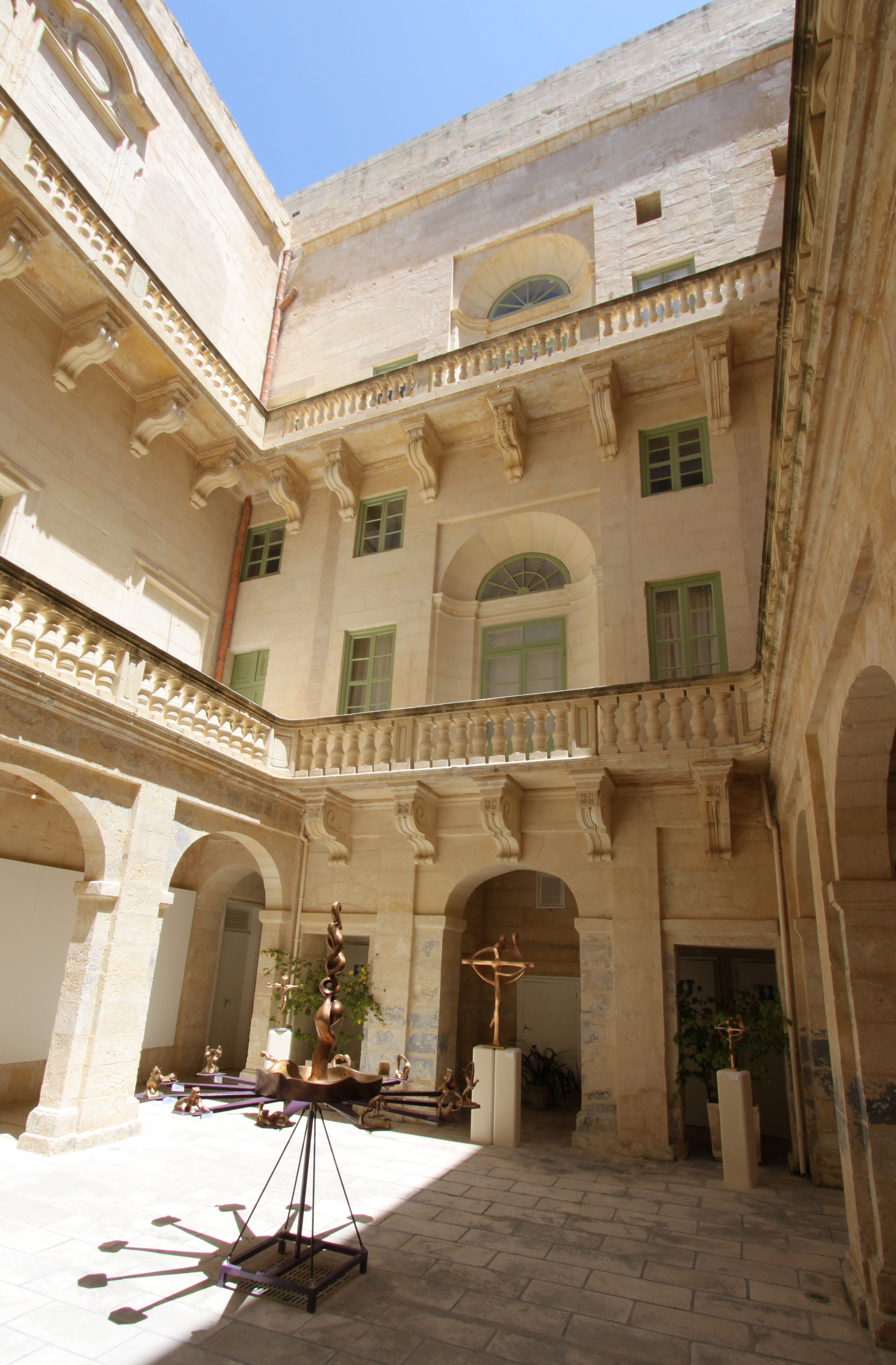 Courtyard of the National Museum of Fine Arts in Valletta, Malta